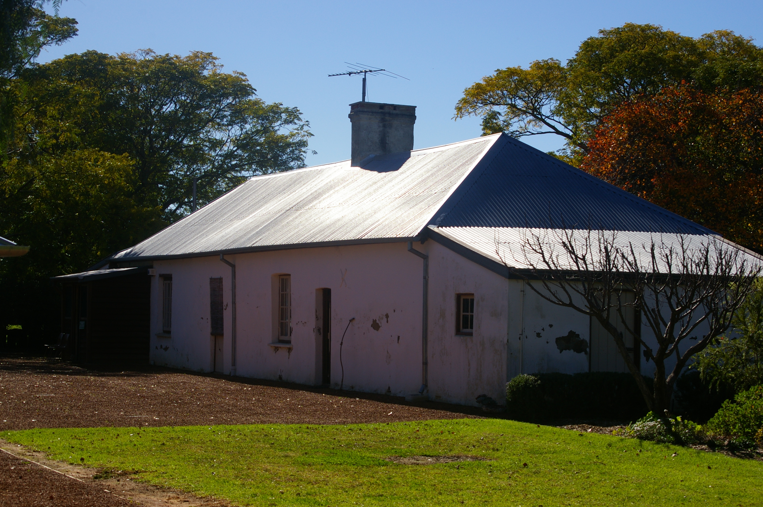 original homestead building circa 1845 became Kitchen, staff quarters when new homestaed was built c1850